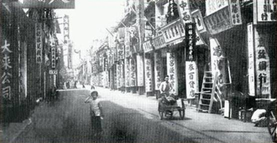 Shang Hai Street in early 1900s